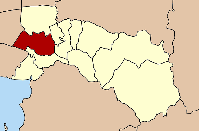 Map of Chachoengsao Province, Thailand, highlighting the district Mueang Chachoengsao (เมืองฉะเชิงเทรา)